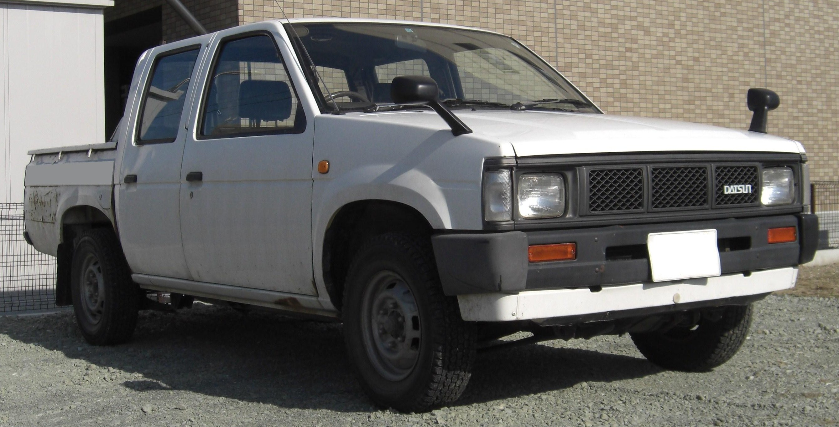 NISSAN DATSUN TRUCK in Japan